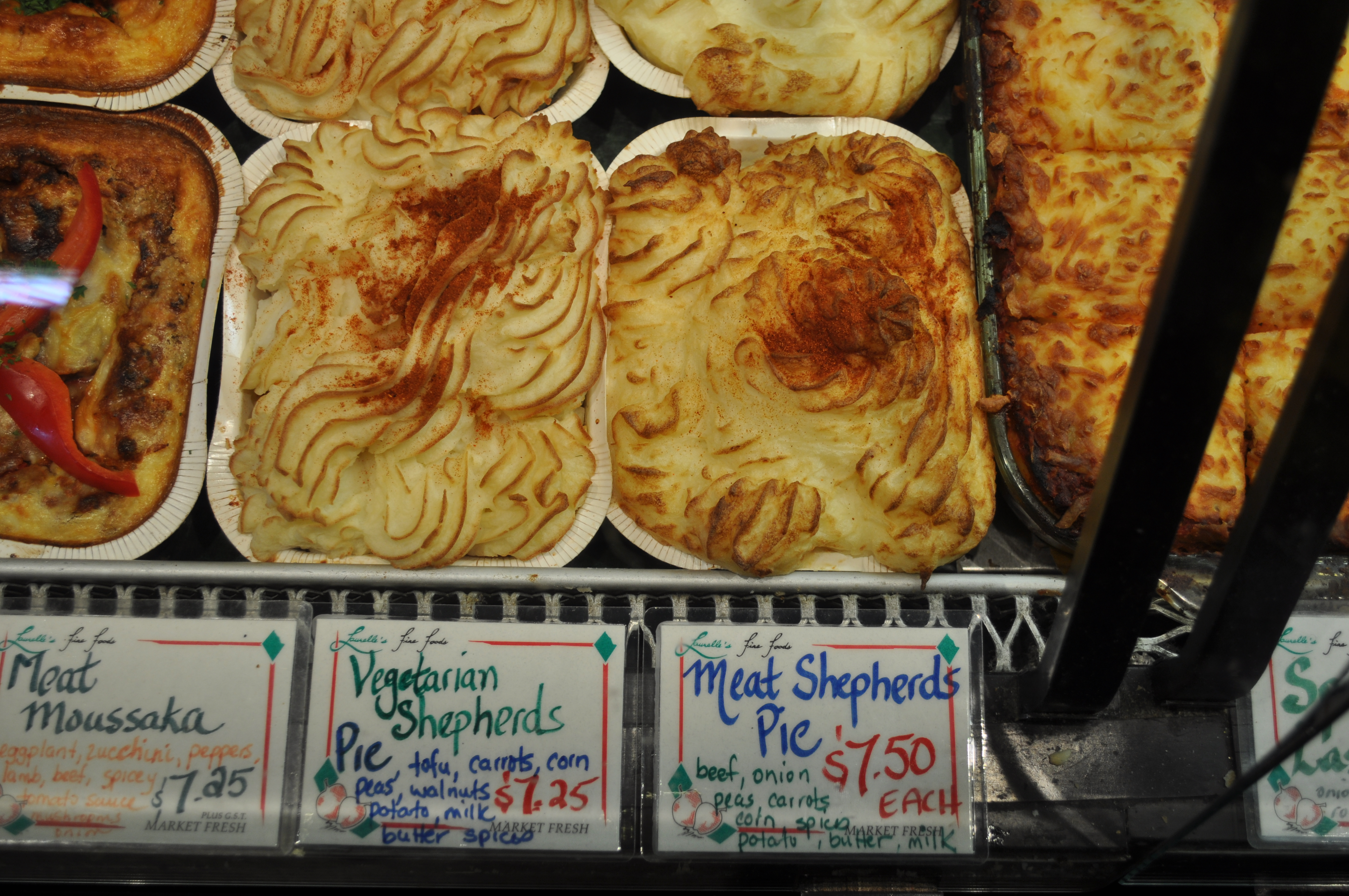 Vegetarian and meat Shepherd's pie for sale, Granville Island Public Market, Granville Island, Vancouver, BC.